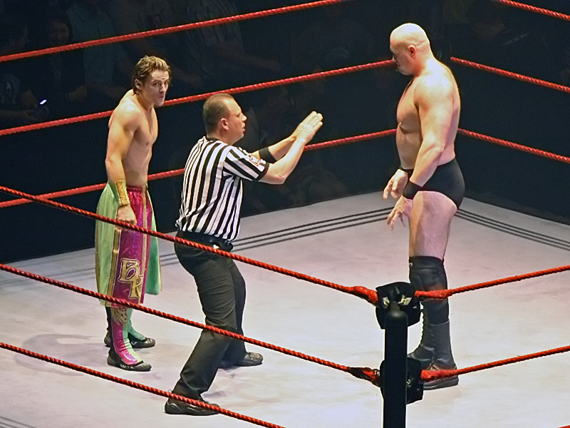 Brian Kendrick and Gene Snitsky face-off prior to their match. Taken during the WWE Raw - Survivor Series Tour, at Rod Laver Arena, Melbourne Park, Melbourne, Australia. Kendrick and Snitsky wrestled on the night; the match was won by Snitsky pinning Kendrick following a pump-handle slam.